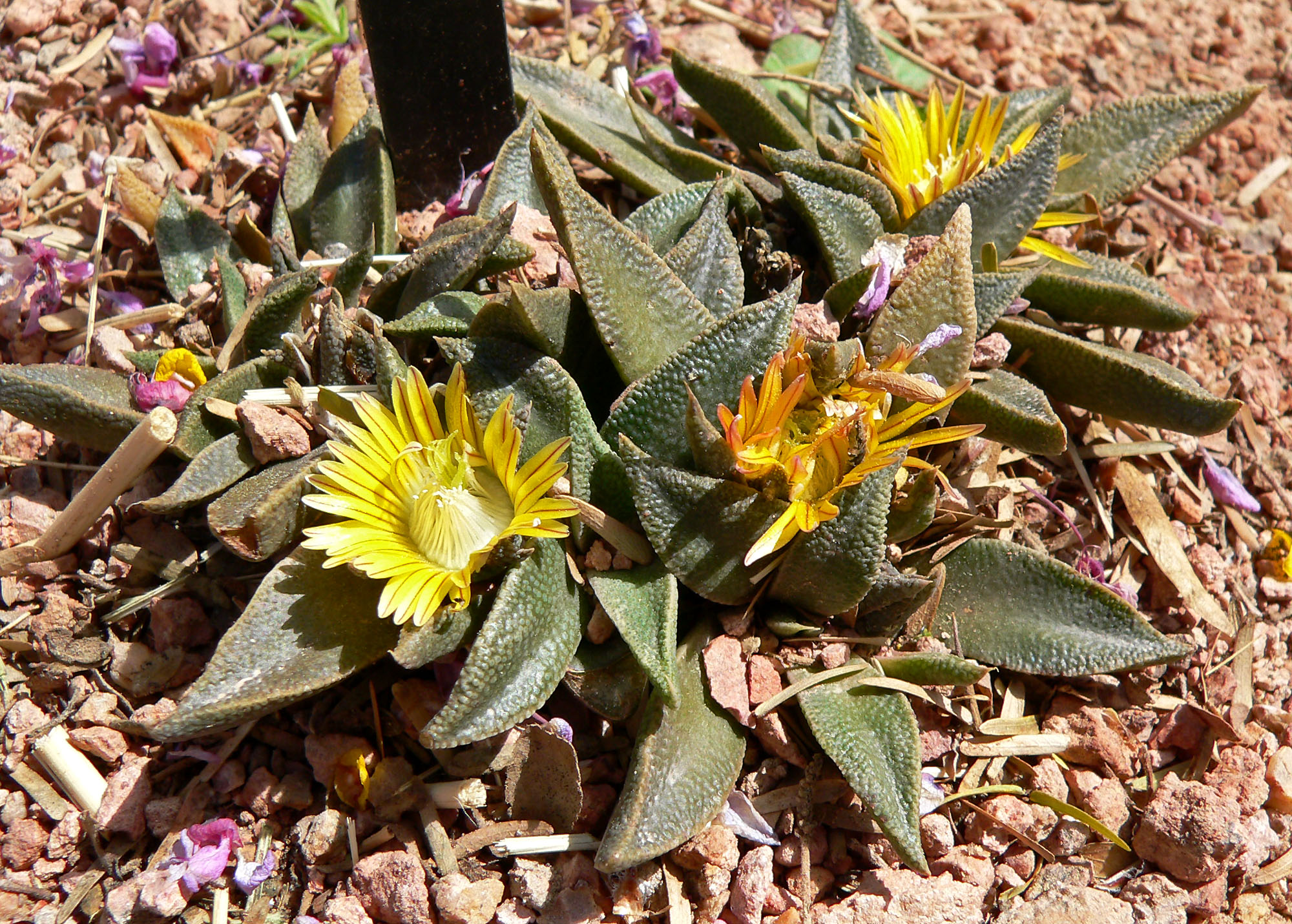 Nananthus transvaalensis at the Springs Preserve garden, Las Vegas, Nevada